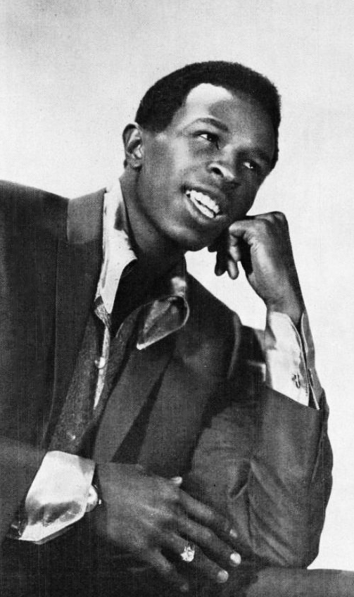 Trade ad for Arthur Conley's single "Sweet Soul Music".To better adapt it to his respective Wikipedia article, the ad was cropped and cleaned in a graphics editing program. The original can be viewed at the source below.